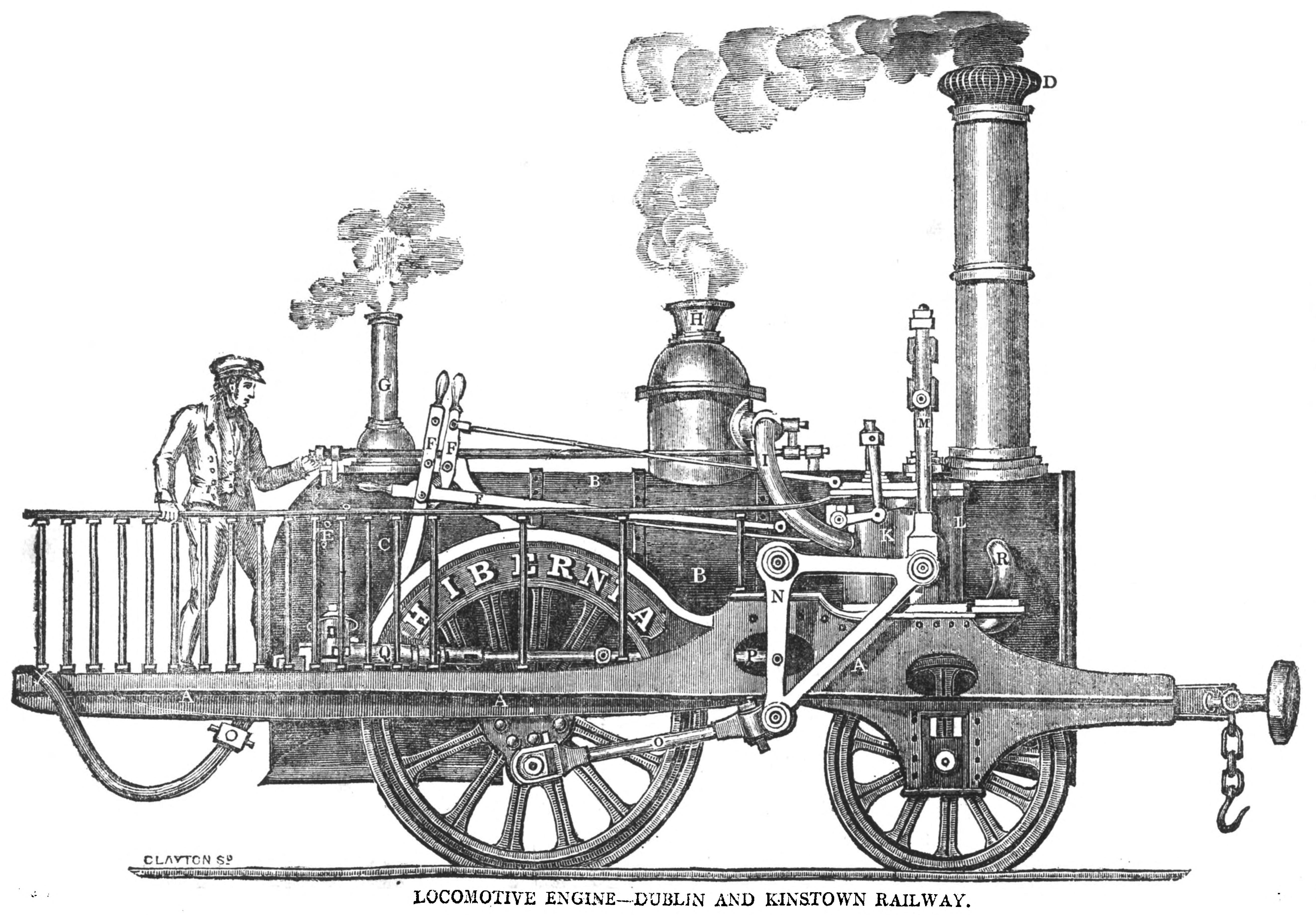 The 2-2-0 steam locomotive Hibernia, built in 1834. This was the first locomotive to run on the Dublin and Kingstown Railway, Ireland's first railway. The locomotive's components are labeled with capital letters as follows: A: frame, B: boiler, C: firebox, D: spark arrestor, E: water level gauge cocks, F: reversing levers, G: adjustable safety valve, H: fixed safety valve, I: steam inlet pipe, K: steam chest, L: cylinder, M: piston rod, N: bell crank, O: connecting rod, P: feedwater pump driving rod, Q: feedwater pump, R: steam exhaust pipe.